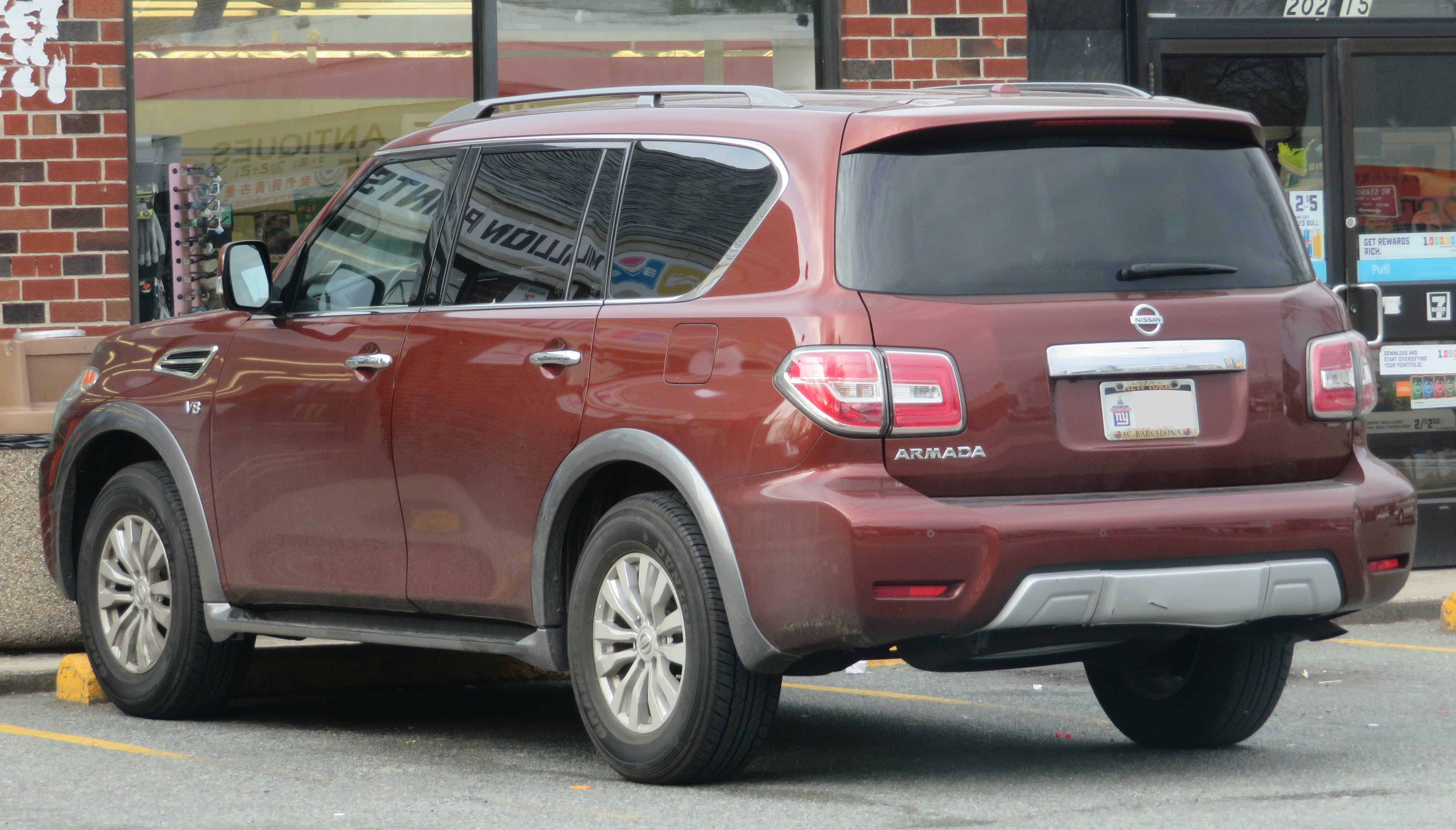 In Queens, New York